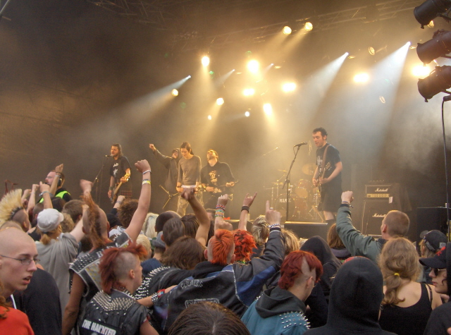 Photo by Seonaidh Adams. Taken at Augustibuiller festival, Lindeberg, Sweden in August 2005.